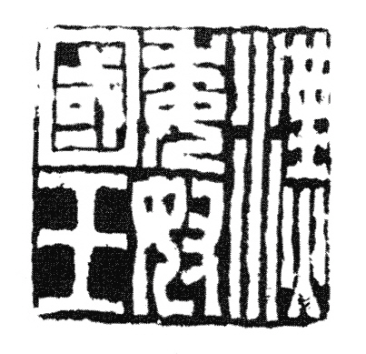 Baiwen imprint of the King of Na gold seal (of Emperor Guangwu).